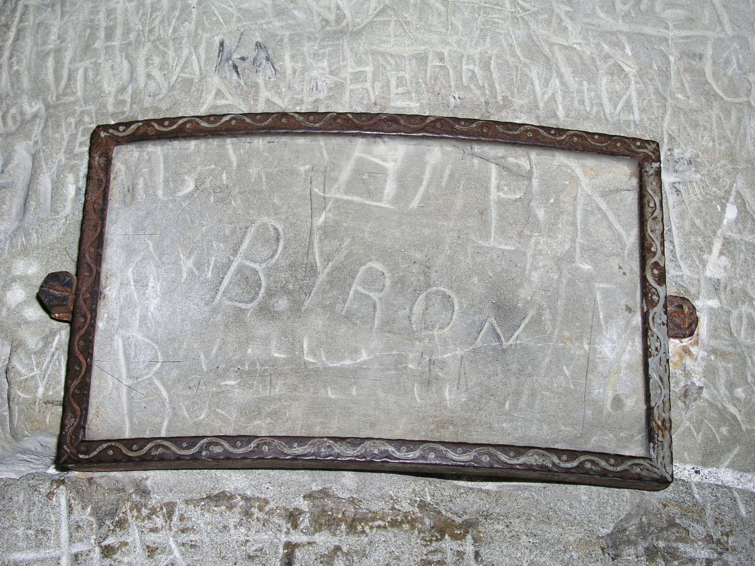 Graffito of Lord Byron in Chillon Castle (Switzerland)